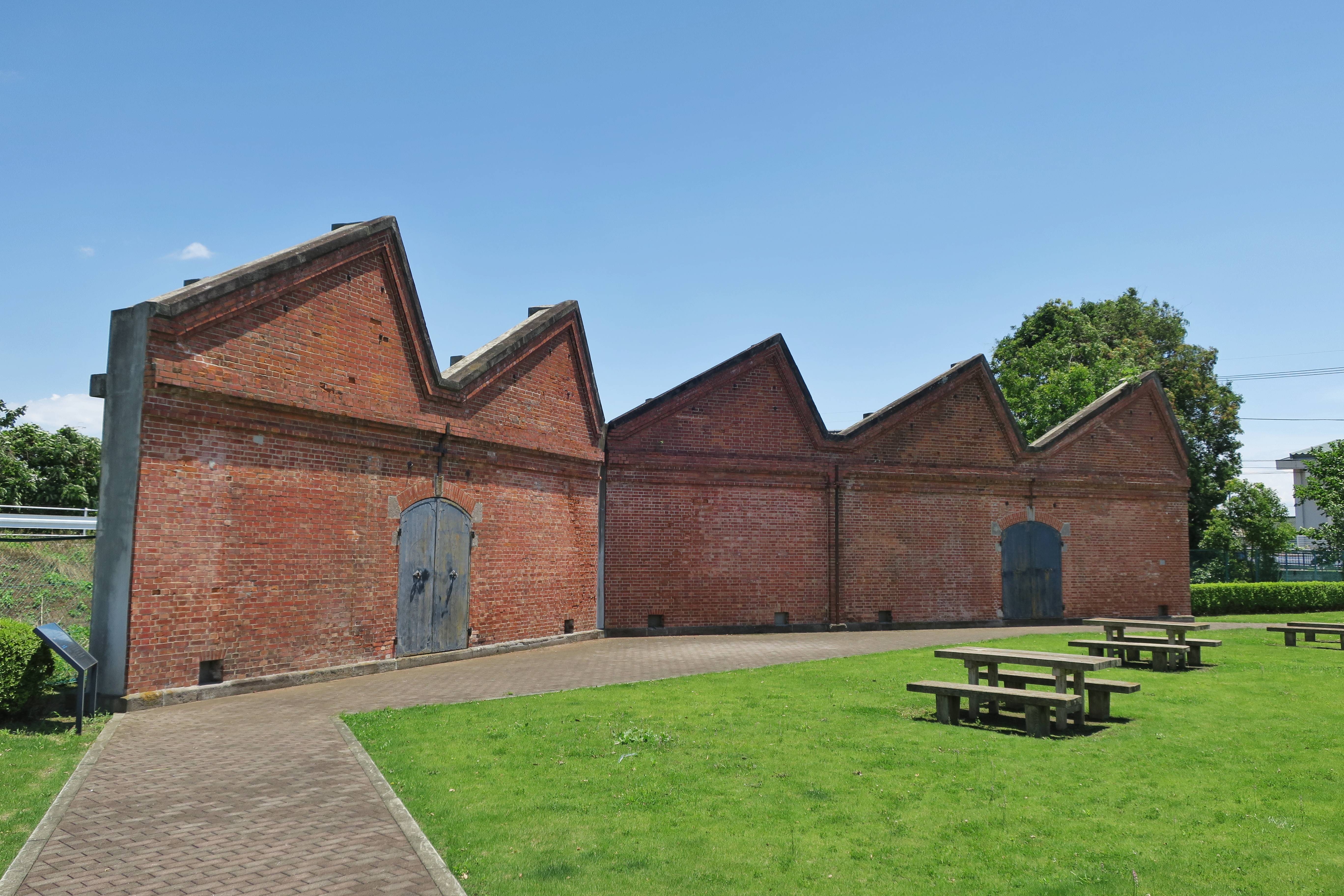 The monument of the birthplace of SUBARU 360.